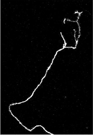 A two photon image of an axon showing arborization.